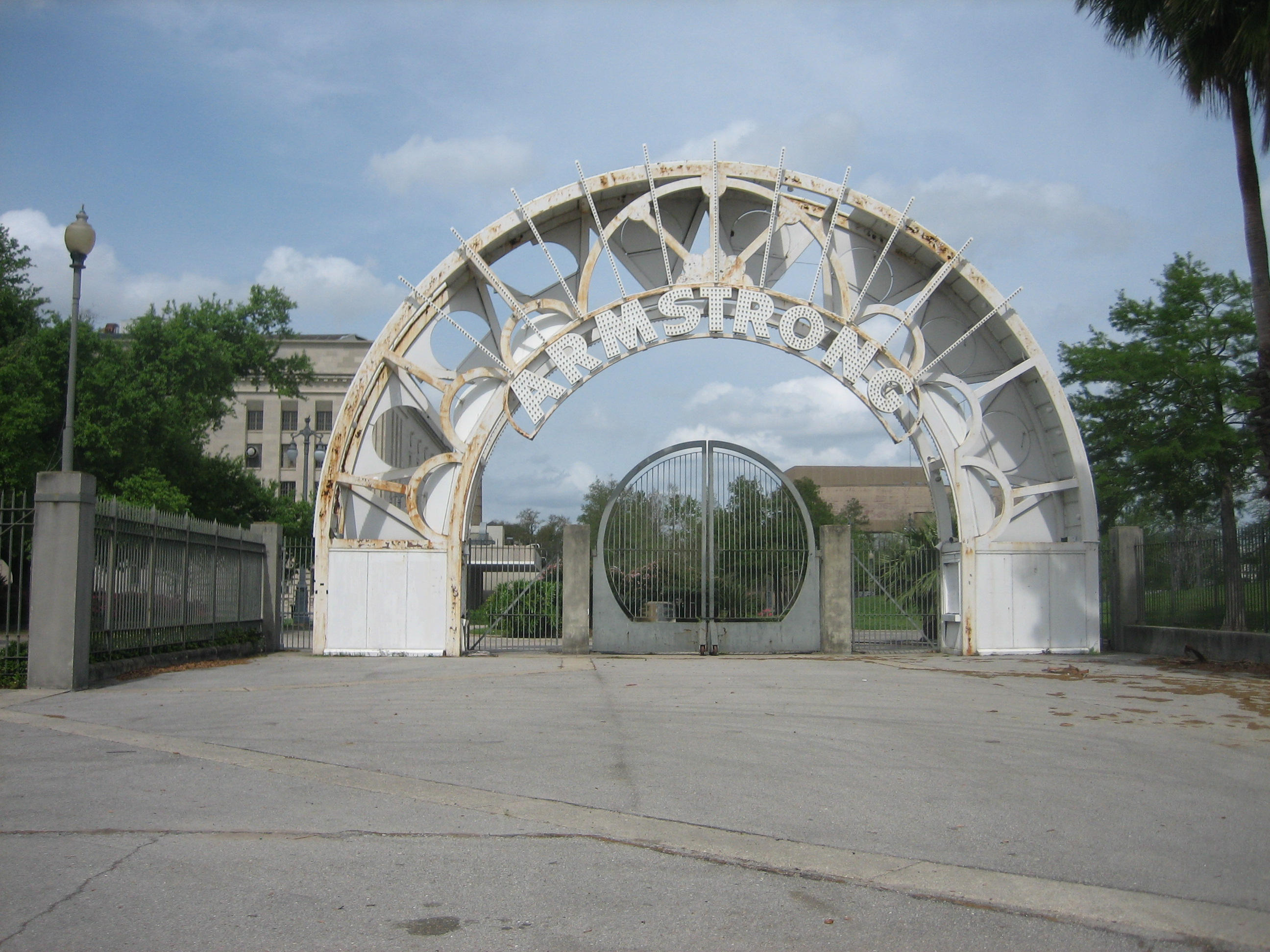 Entrance arch for Armstrong Park, Rampart Street, New Orleans (opposite from French Quarter end of Saint Ann Street)